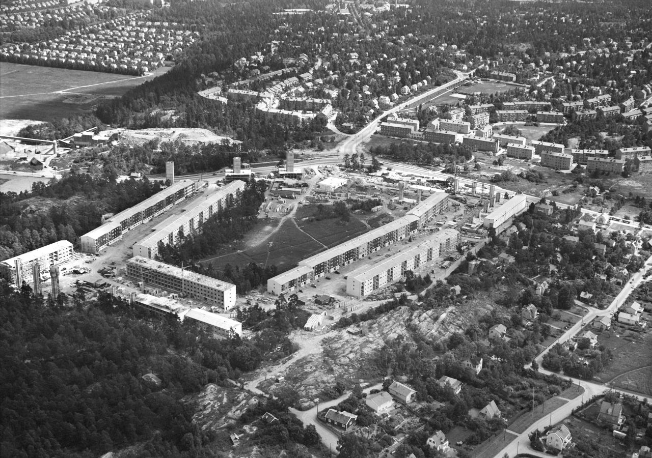 FOTOGRAFIFlygbildöver Östberga från nordväst. I förgrunden delar av bebyggelsen i Örby Slott och i fonden Enskedefältet och Stureby. 1958-1958FOTOGRAF: Bladh, Oscar.BILDNUMMER: M2 47 58Stadsmuseet i Stockholm